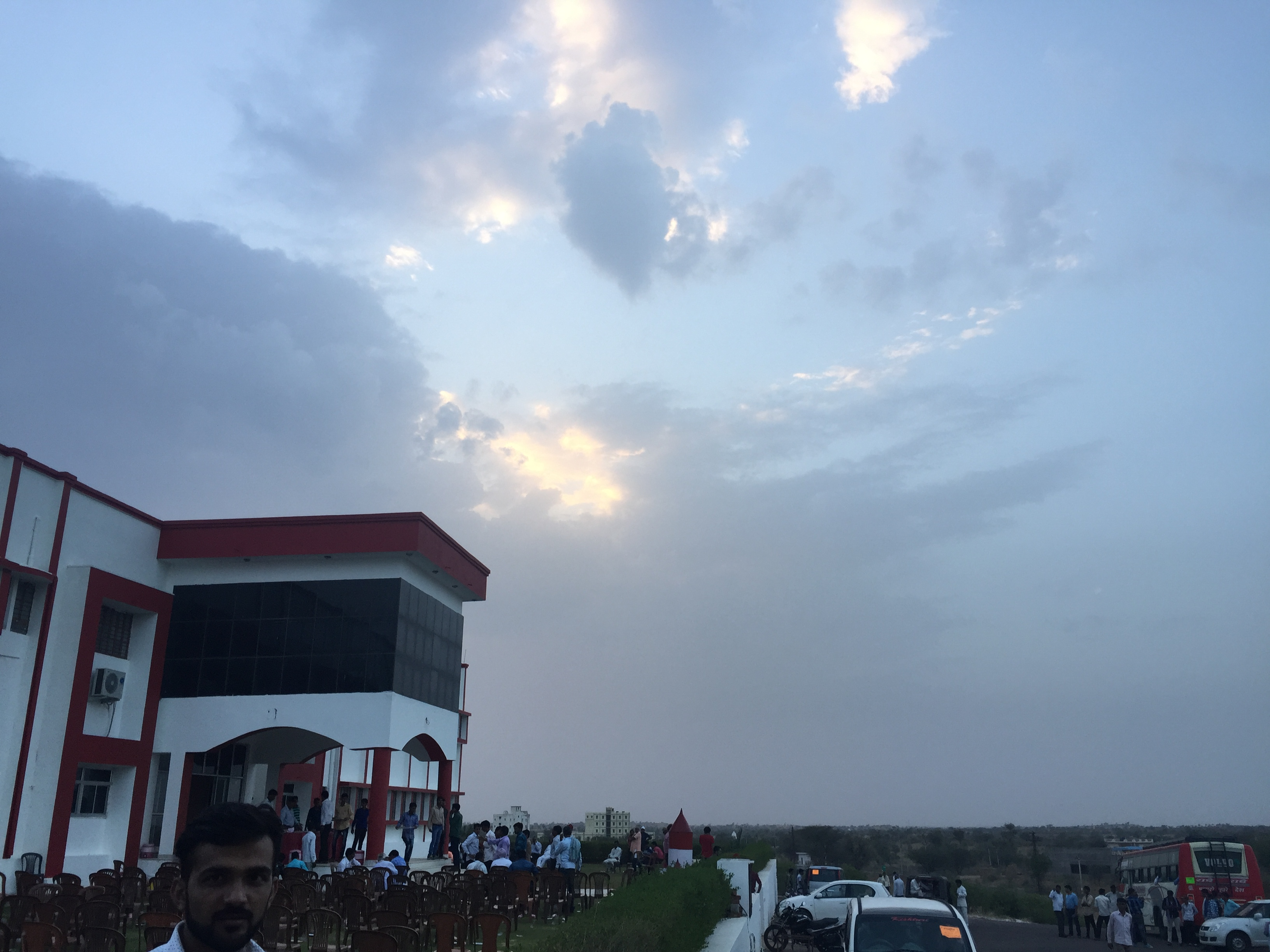 Sky as blue as sea itself